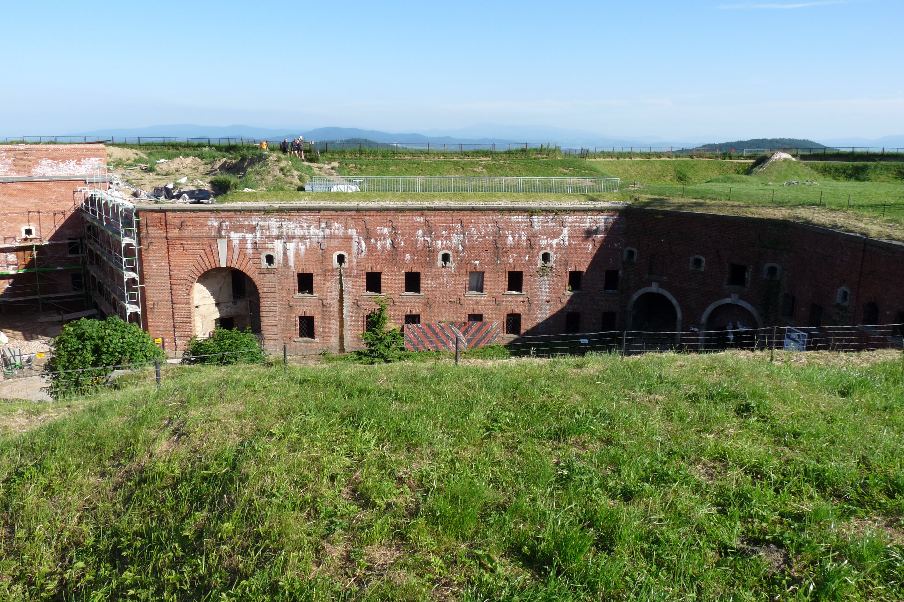 Srebrna Góra